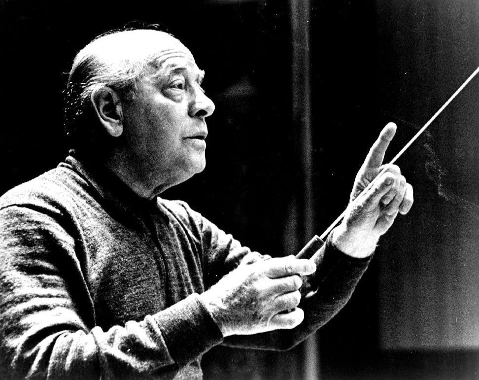 Photo of Eugene Ormandy conducting.